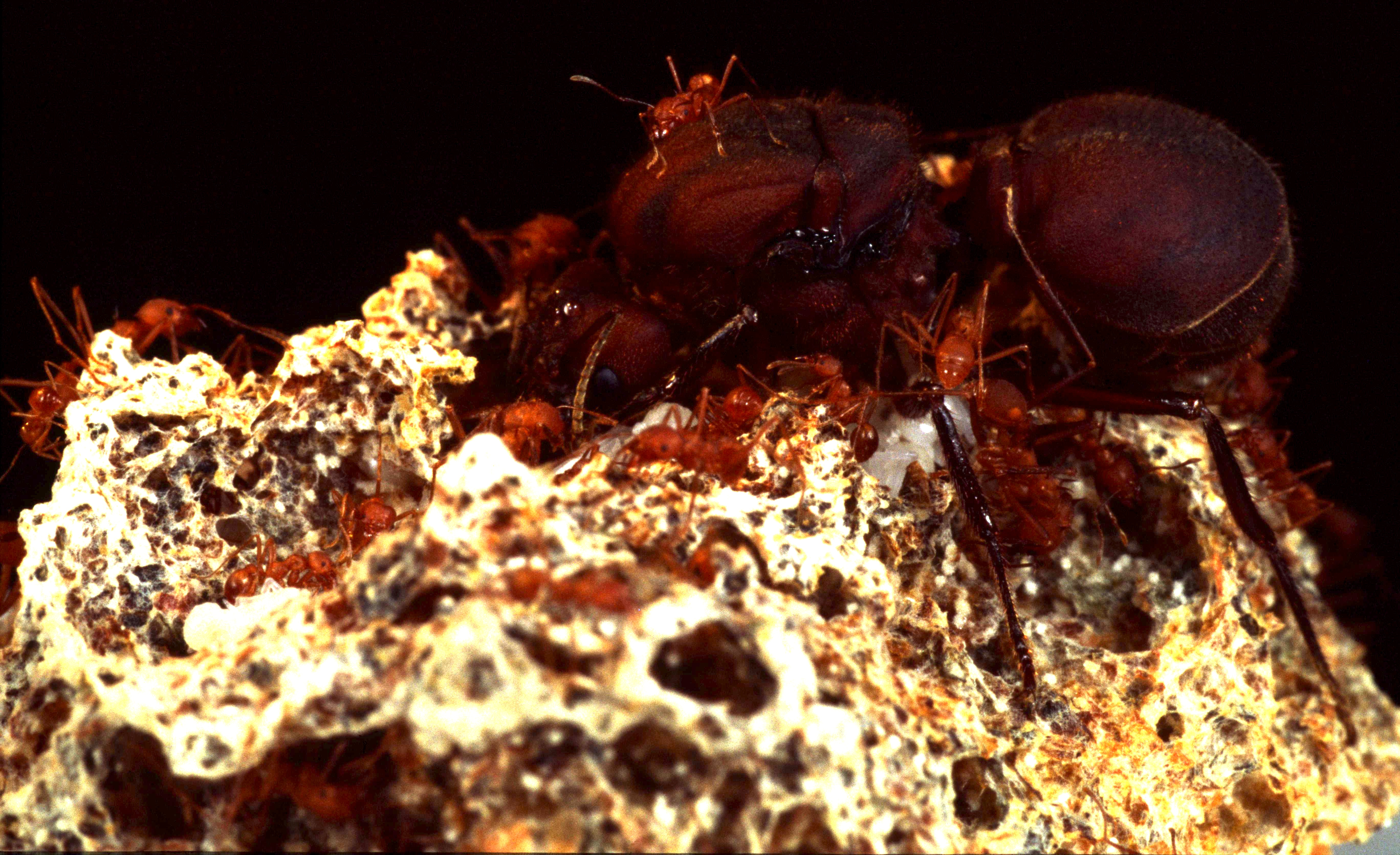 Atta columbica queen with workers on substrate